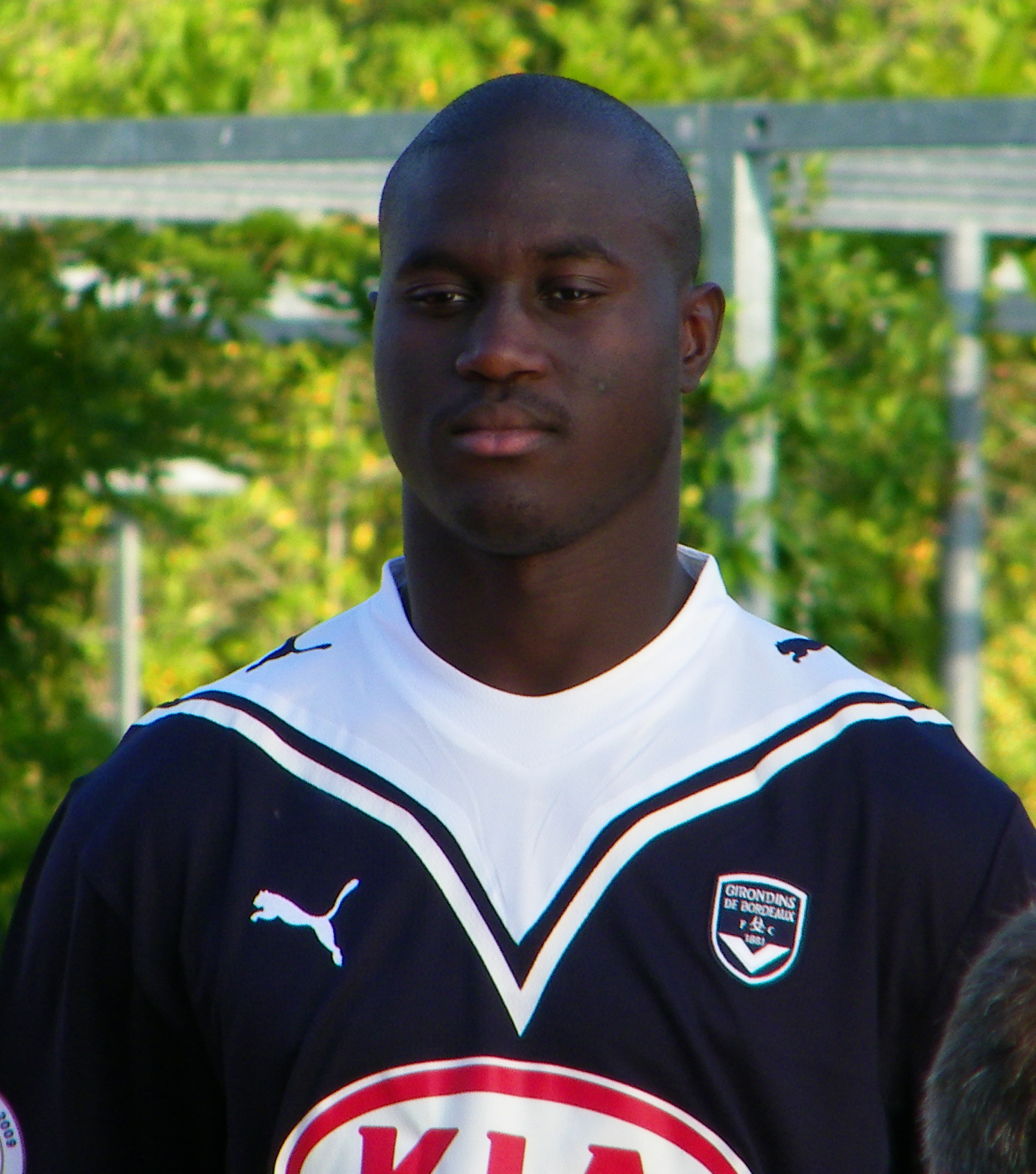 Henri Saivet, player at FC Girondins Bordeaux. Taken by Valentin Trijoulet. Public domain.